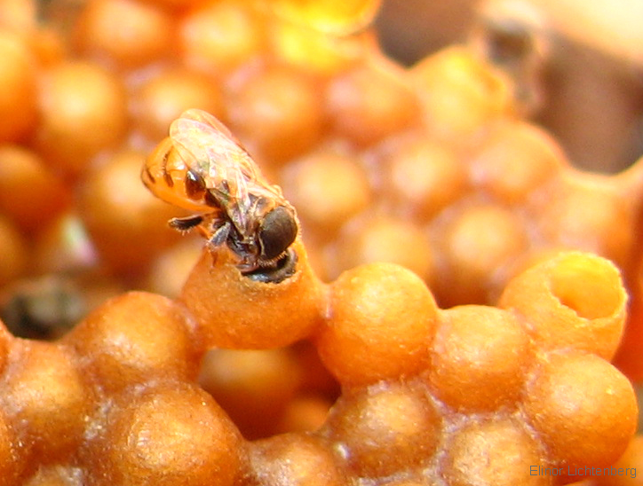 Friesella schrottkyi (stingless bee) worker inside the nest, tending a brood cell